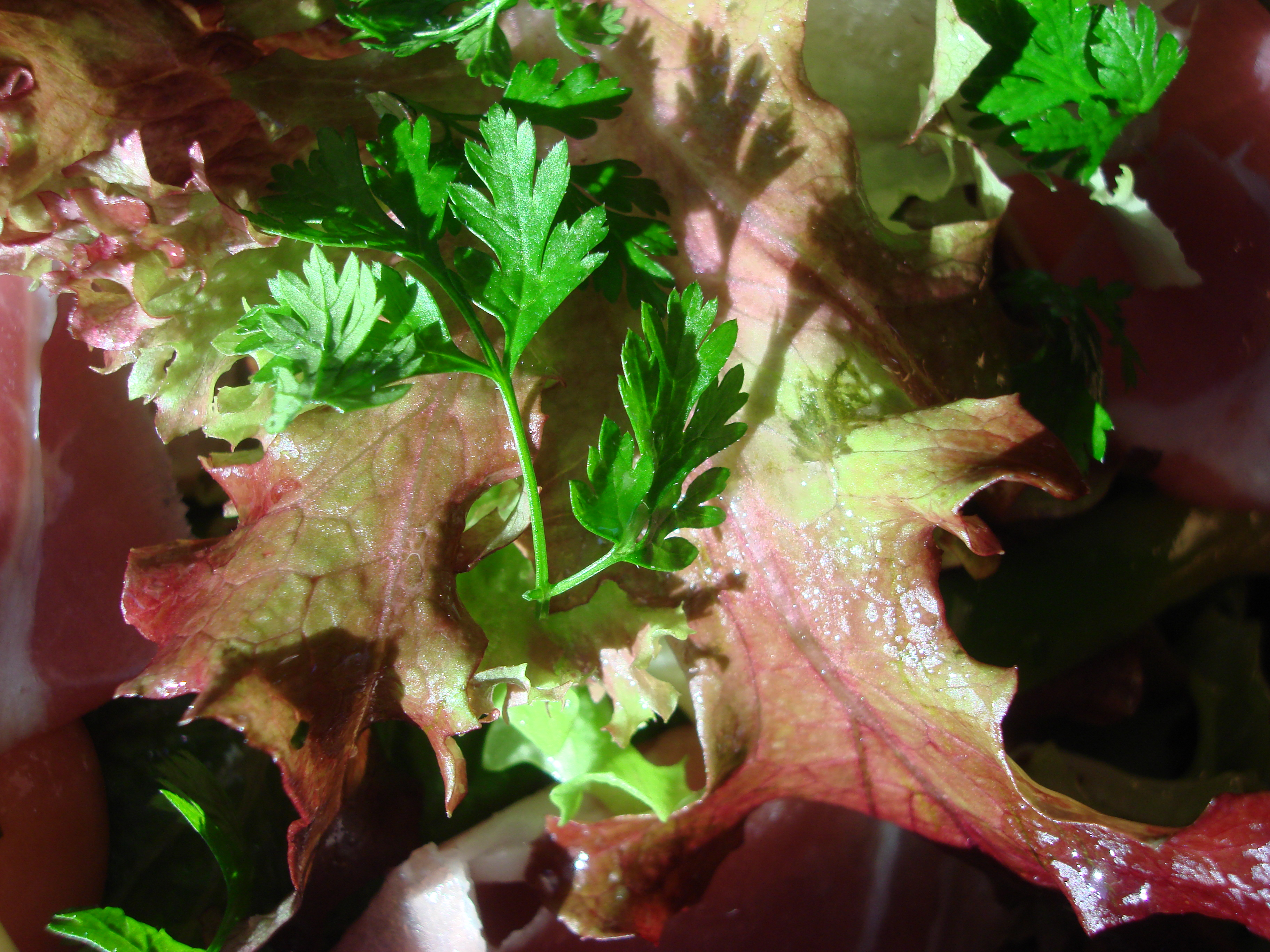 Chervil